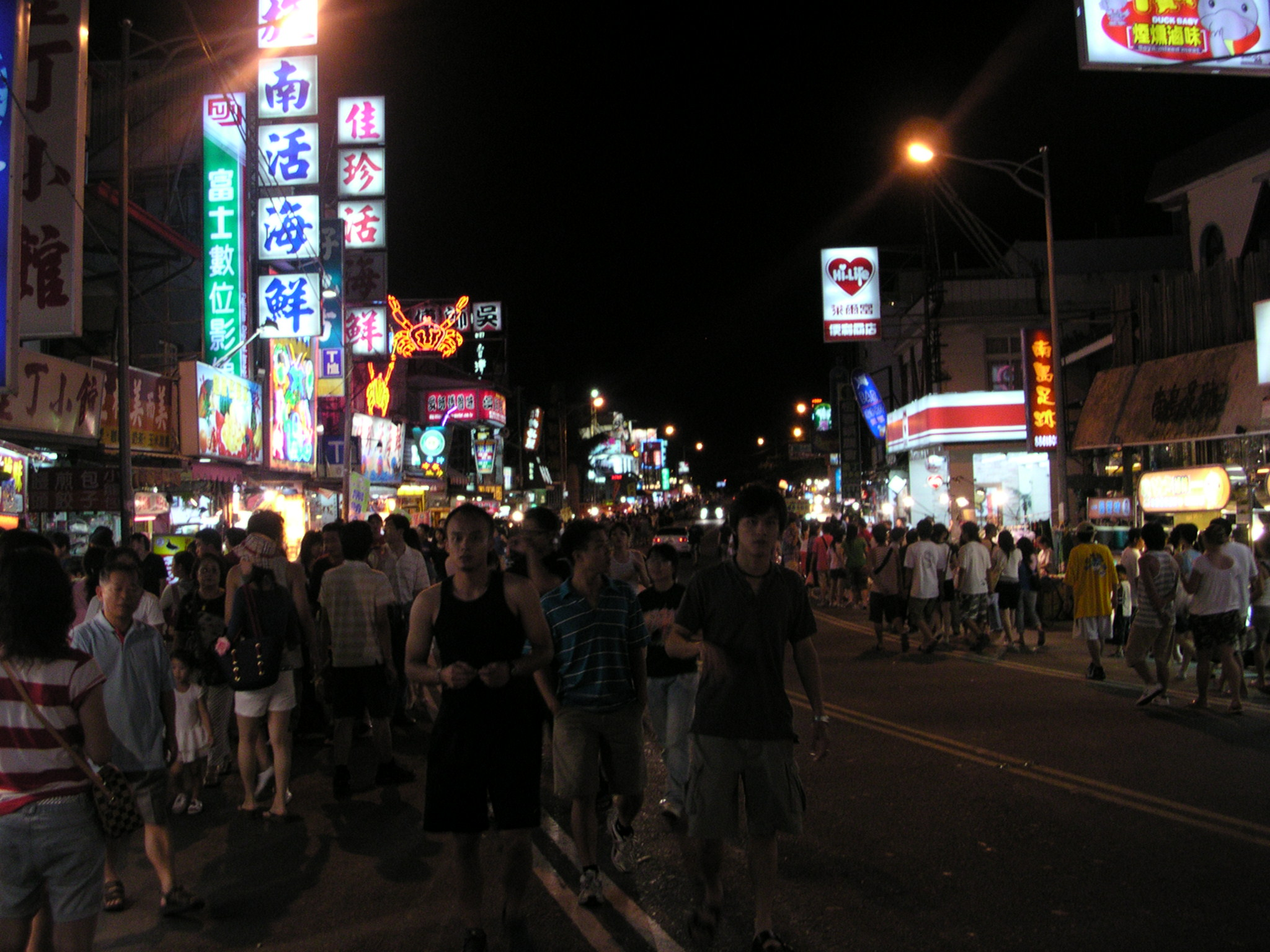 Kengting Road, Kenting National Park, Taiwan.